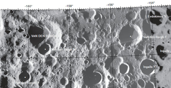 Except from the USGS Digital Atlas of the Moon.